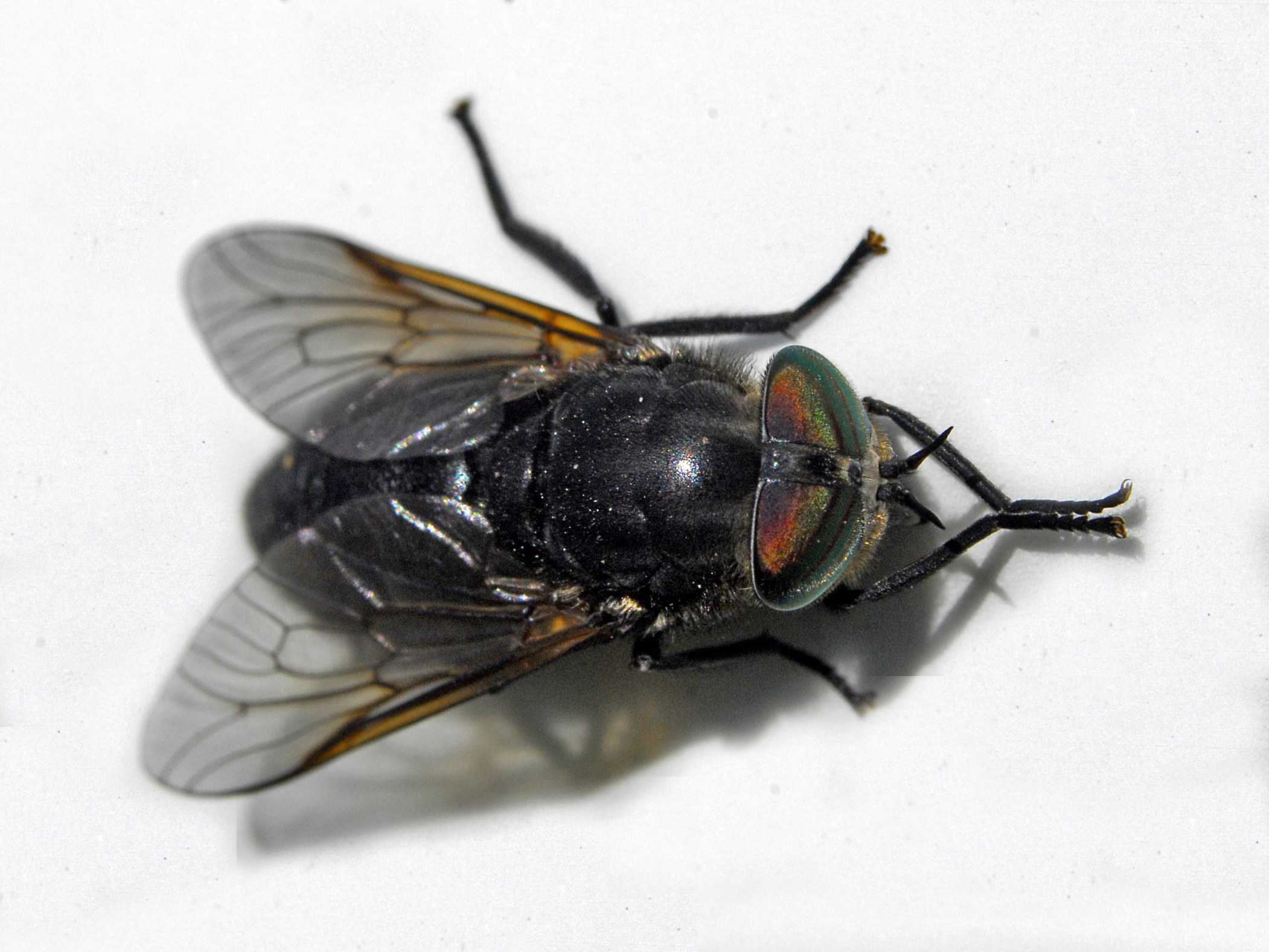 Hybomitra aterrima. Female. Valsavarenche, Aosta, Italy